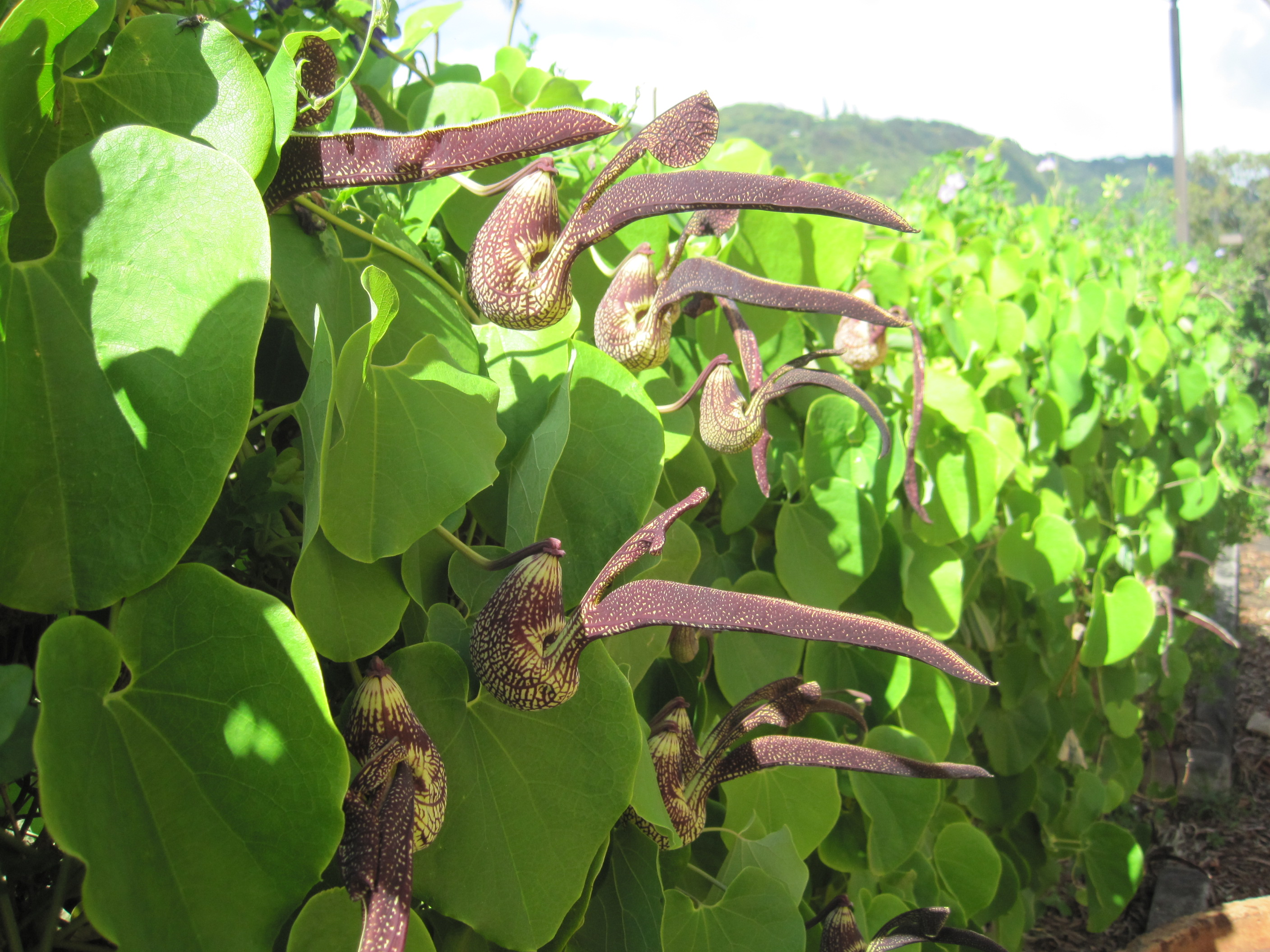 Hedge of Aristolochia ringens (Dutchman's Pipe) in bloom, University of Hawaii at Manoa, Honolulu